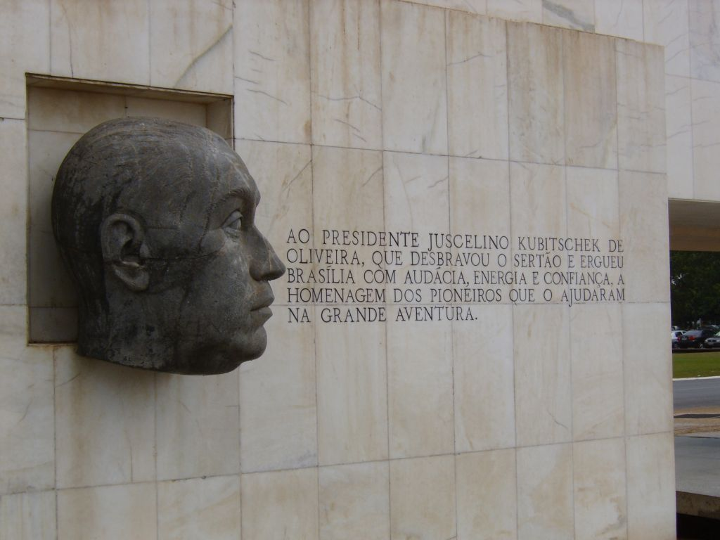 Sculpture, JK's face, 3 Poderes Square, Brasilia, Brazil, 2006, own work